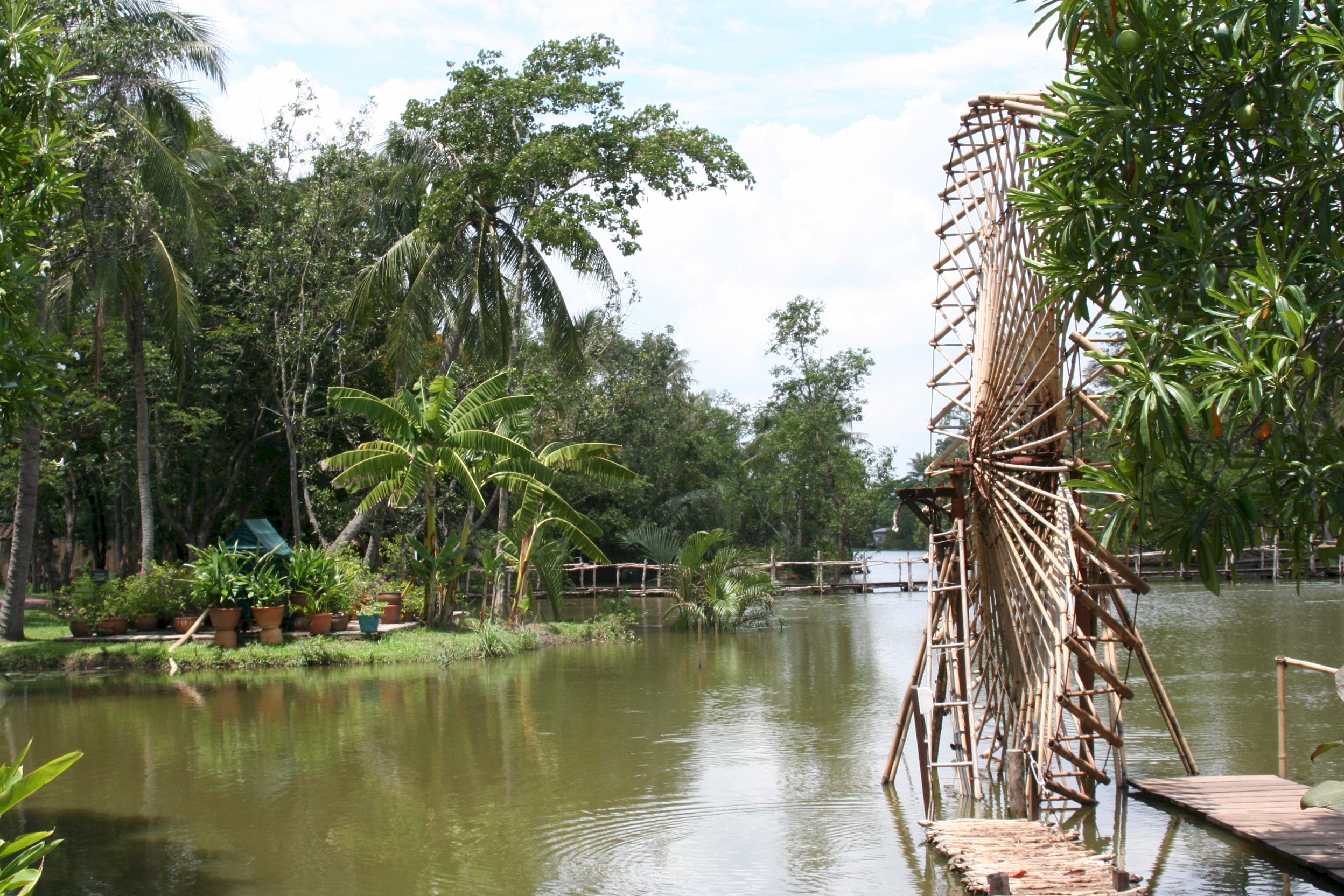 Bamboo water wheel at Binh Quoi village, (Binh Thanh District, Ho Chi Minh City, Vietnam,) taken Jun 2005. Photographer Roderick Divilbiss